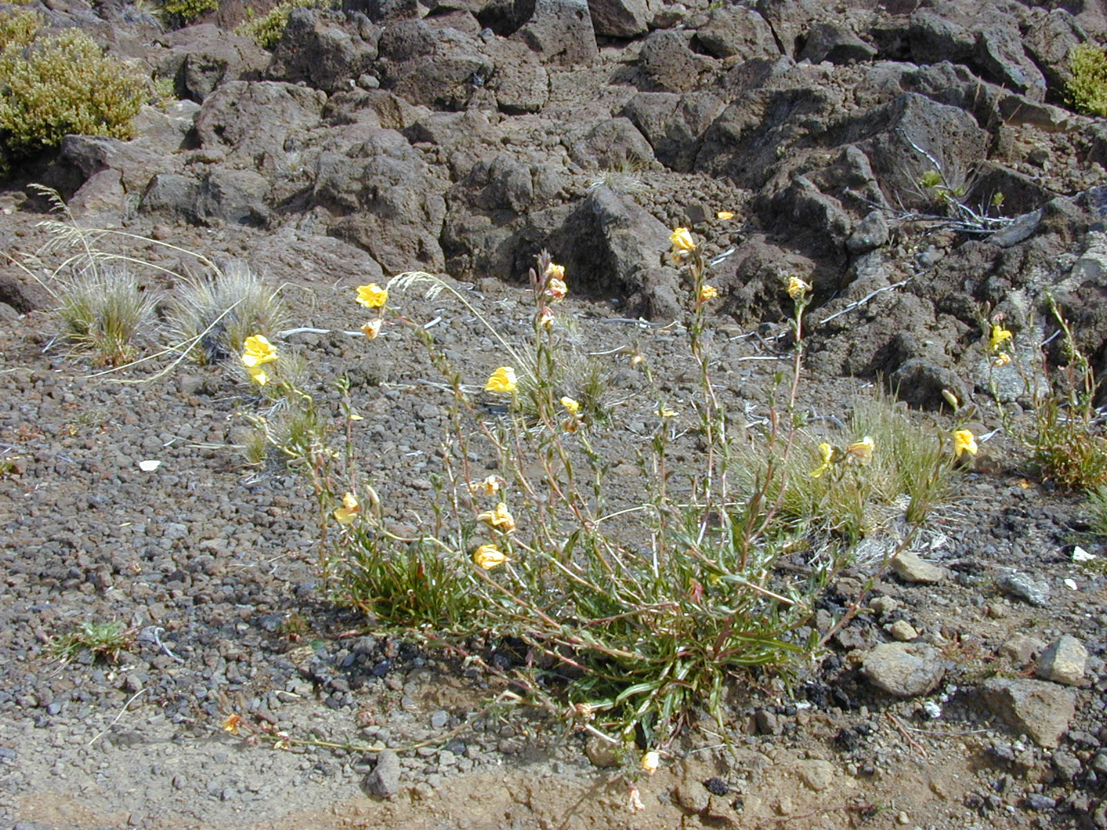 Oenothera stricta subsp. stricta (flowering habit). Location: Maui, Kalahaku